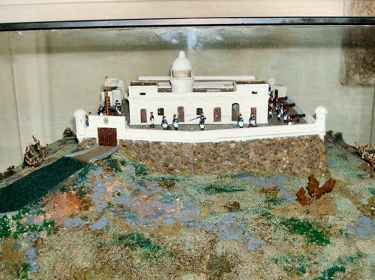 Model of Fortaleza del Cerro in the military museum of Fortaleza Santa Tereza, Rocha Department, Uruguay.